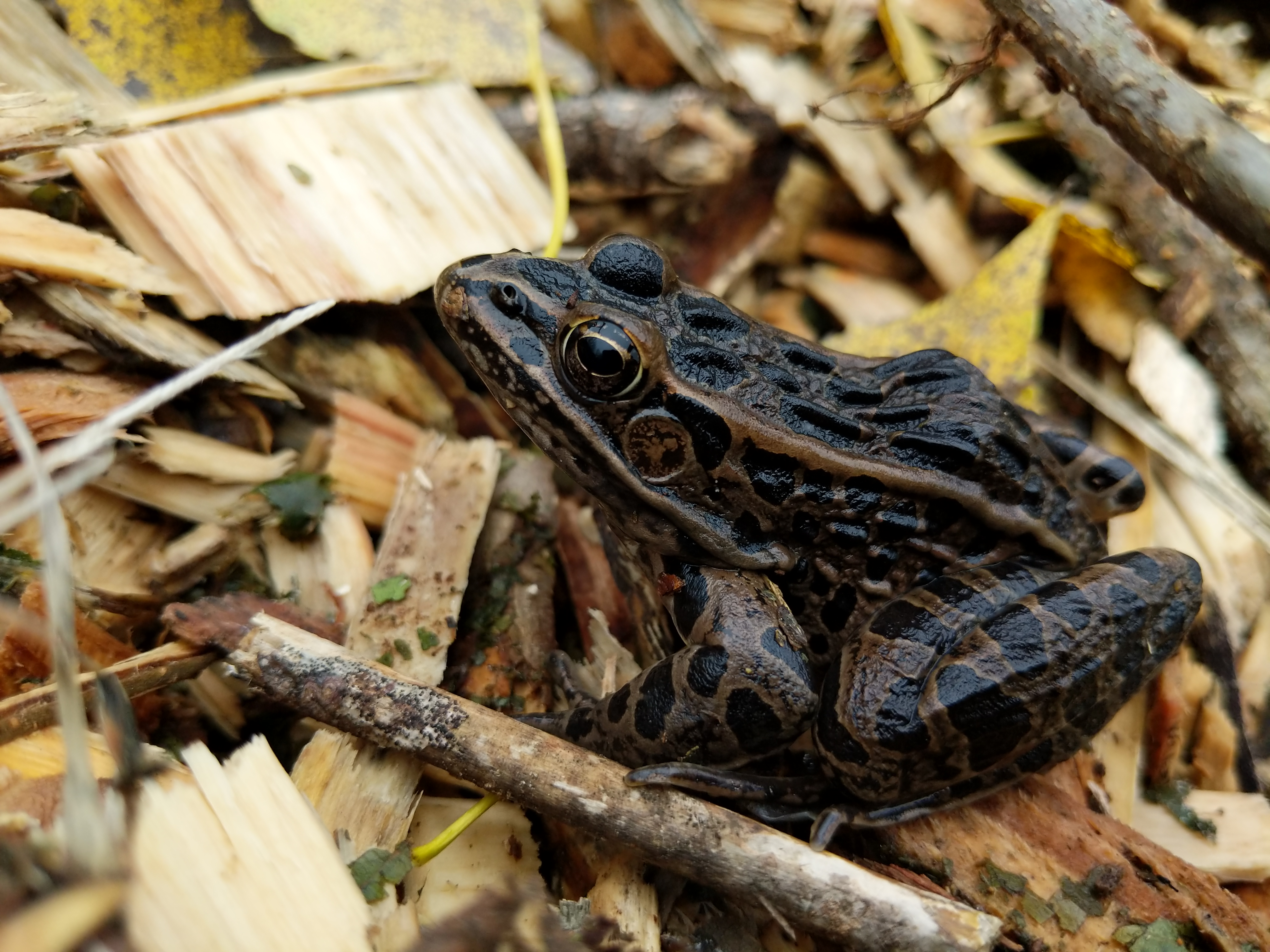 Brown morph northern leopard frog in a wood chip pile in Iowa. Outside temperature was cold.